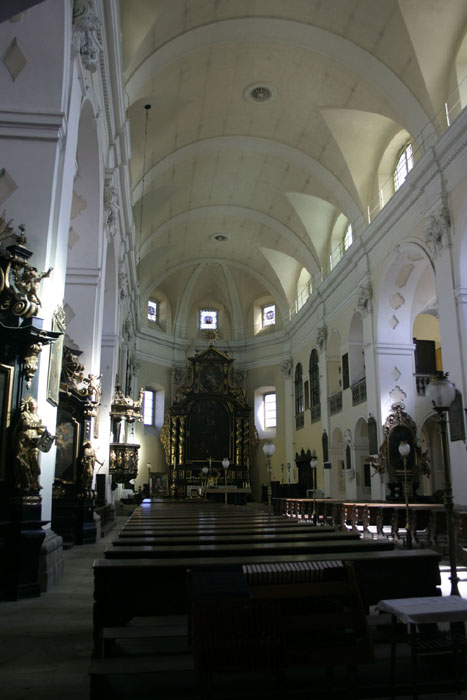 Interior of St Stephen cathedral in Litoměřice, Czech Republic.